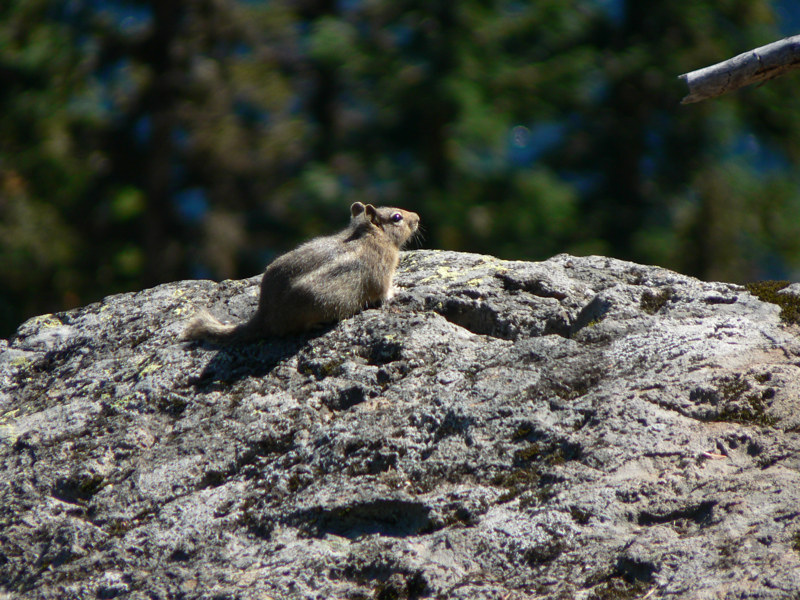 Cascade Golden-mantled Ground Squirrel (identified by location)